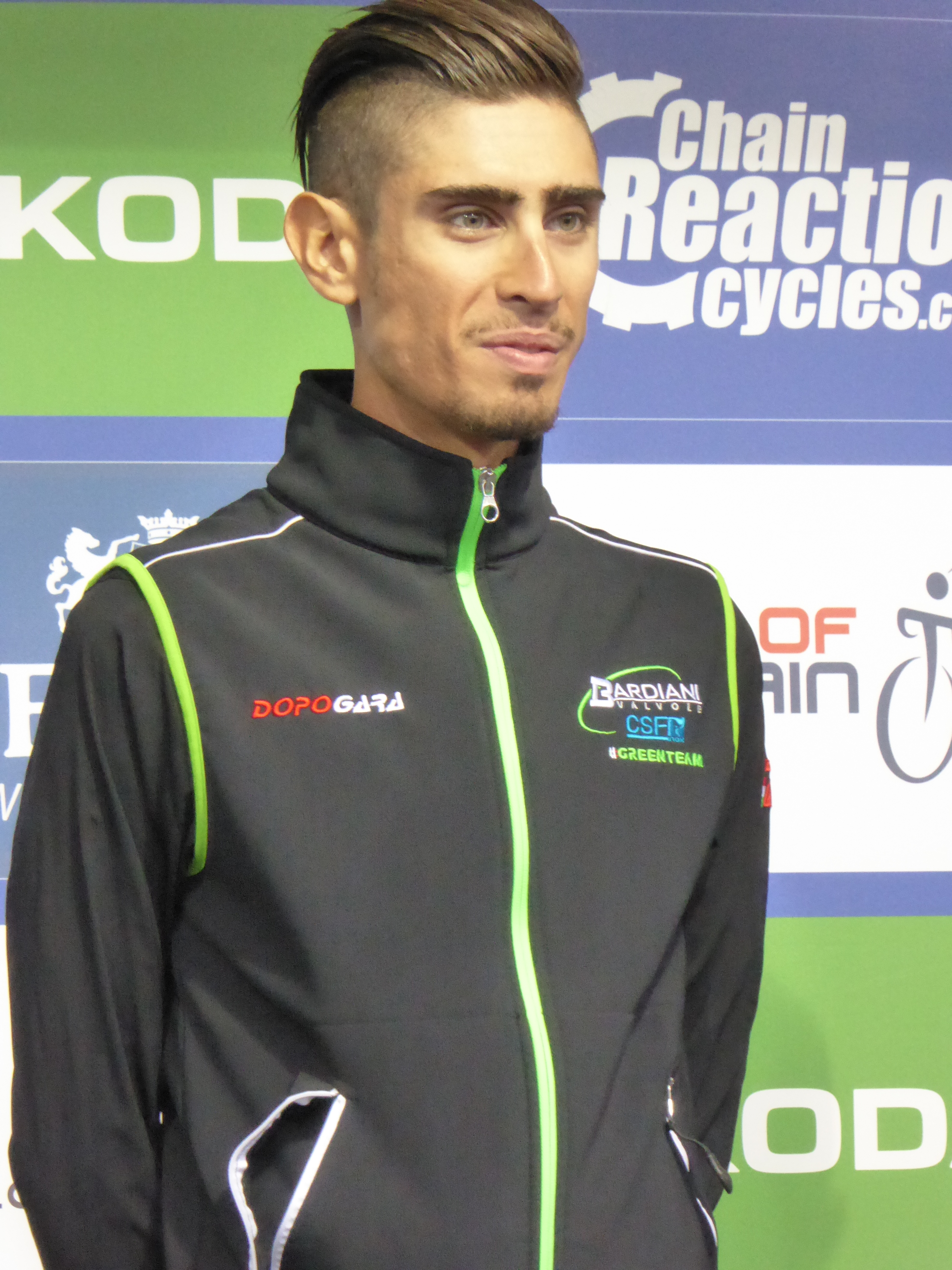 Francesco Manuel Bongiorno (Bardiani-CSF), pictured at the 2016 Tour of Britain team presentation in Glasgow on 3 September 2016.